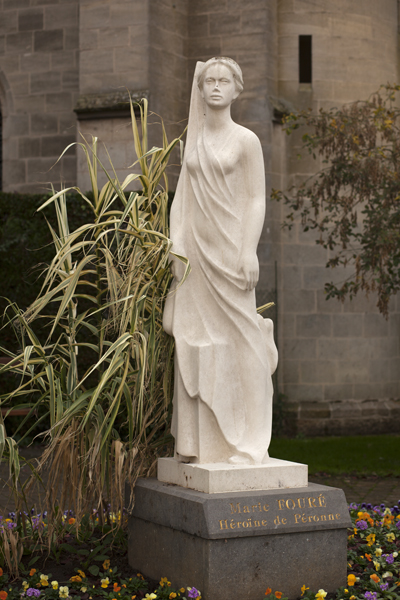 Péronne; Hauts de France, Somme; France; A statue of Marie Fouré. 20th century. Ref: PM_113485_F_Peronne; Photographer: Paul M.R. Maeyaert; ; © Paul M.R. Maeyaert